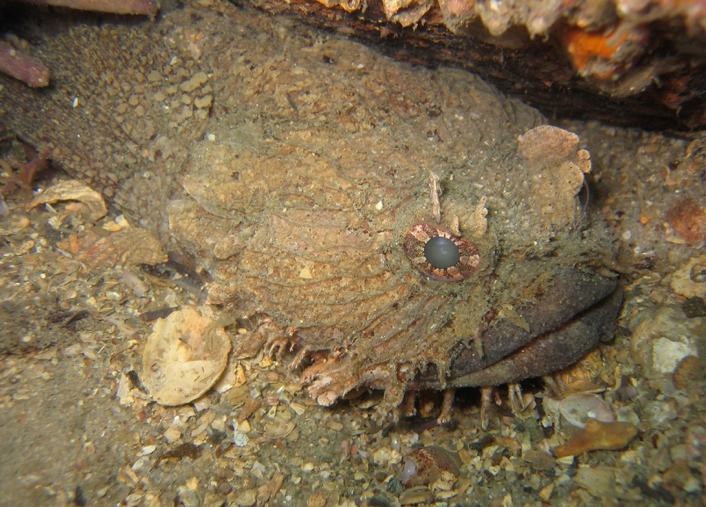 Portrait of an Eastern Frogfish (Batrachomoeus dubius). Halifax Point, Port Stephens, NSW163936288